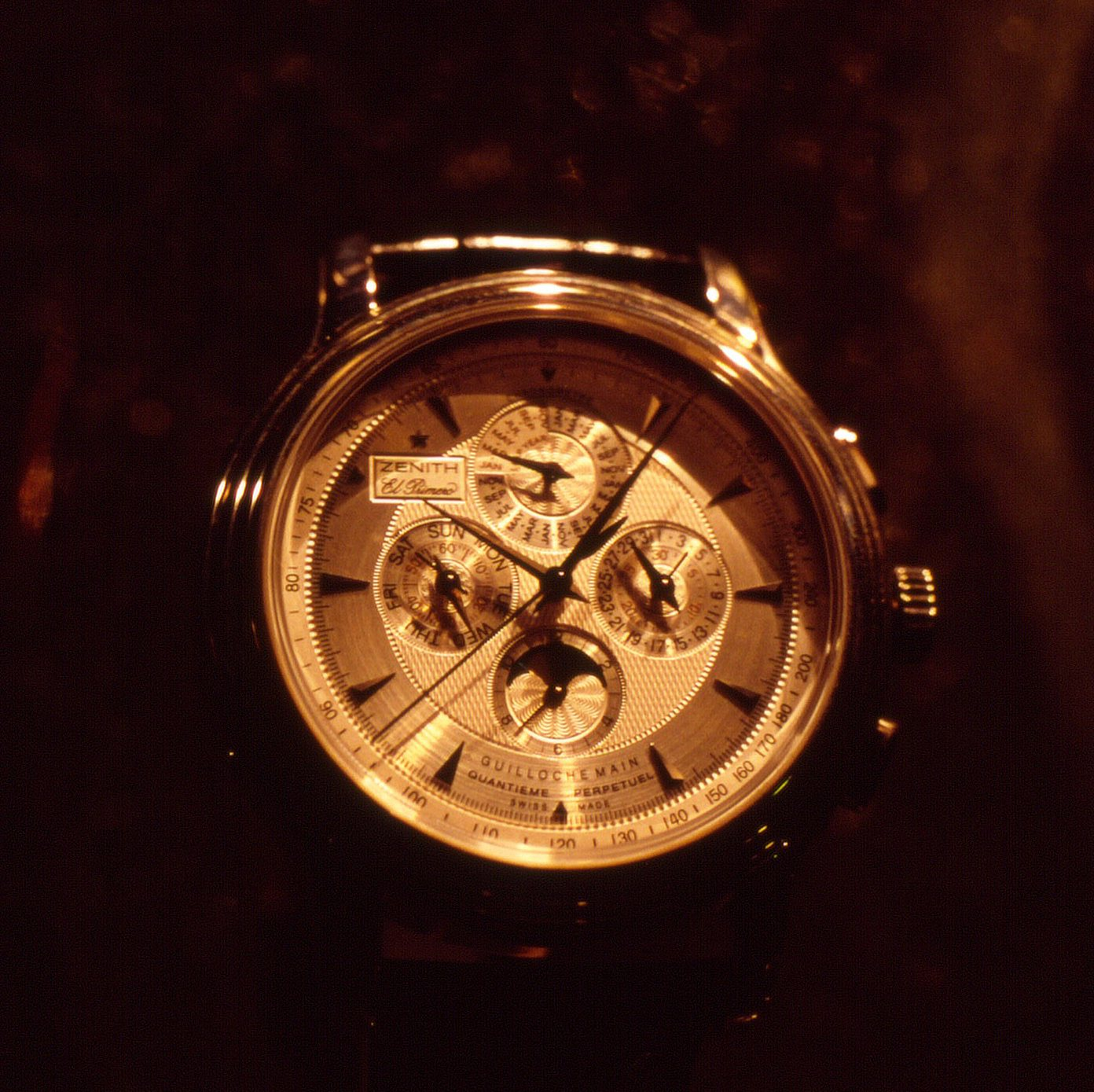 Musée International d'Horlogerie, La Chaux-De-Fonds, Switzerland.